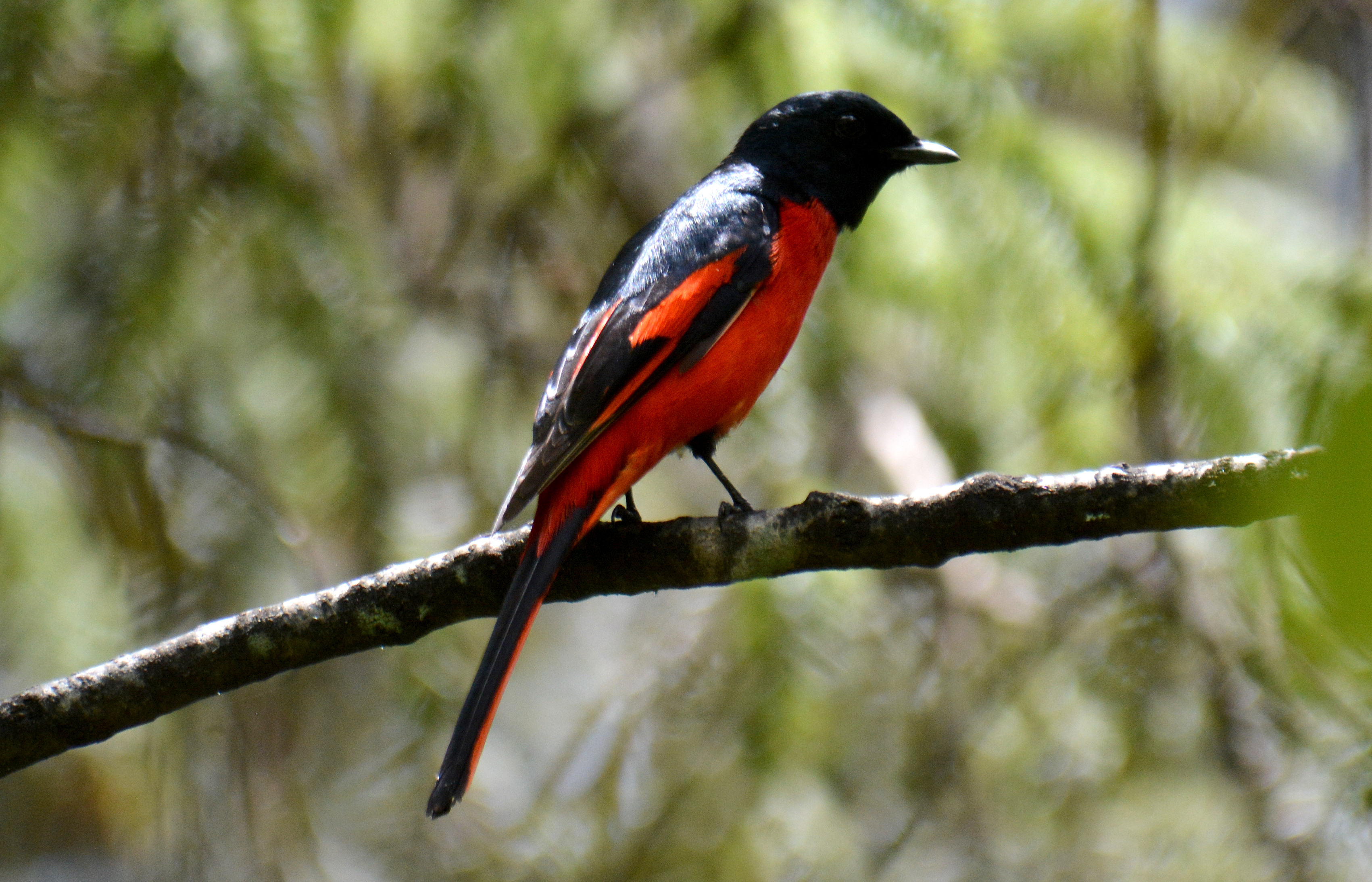 Short-billed Minivet Pericrocotus brevirostris Male by Dr. Raju Kasambe